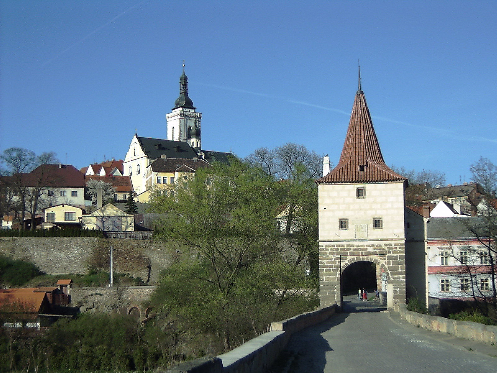 The gate and church in Stribro (view from the bridge)